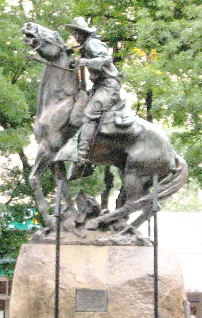 The Bucky O`Neill Monument, a 1907 equestrian statue by Solon Borglum